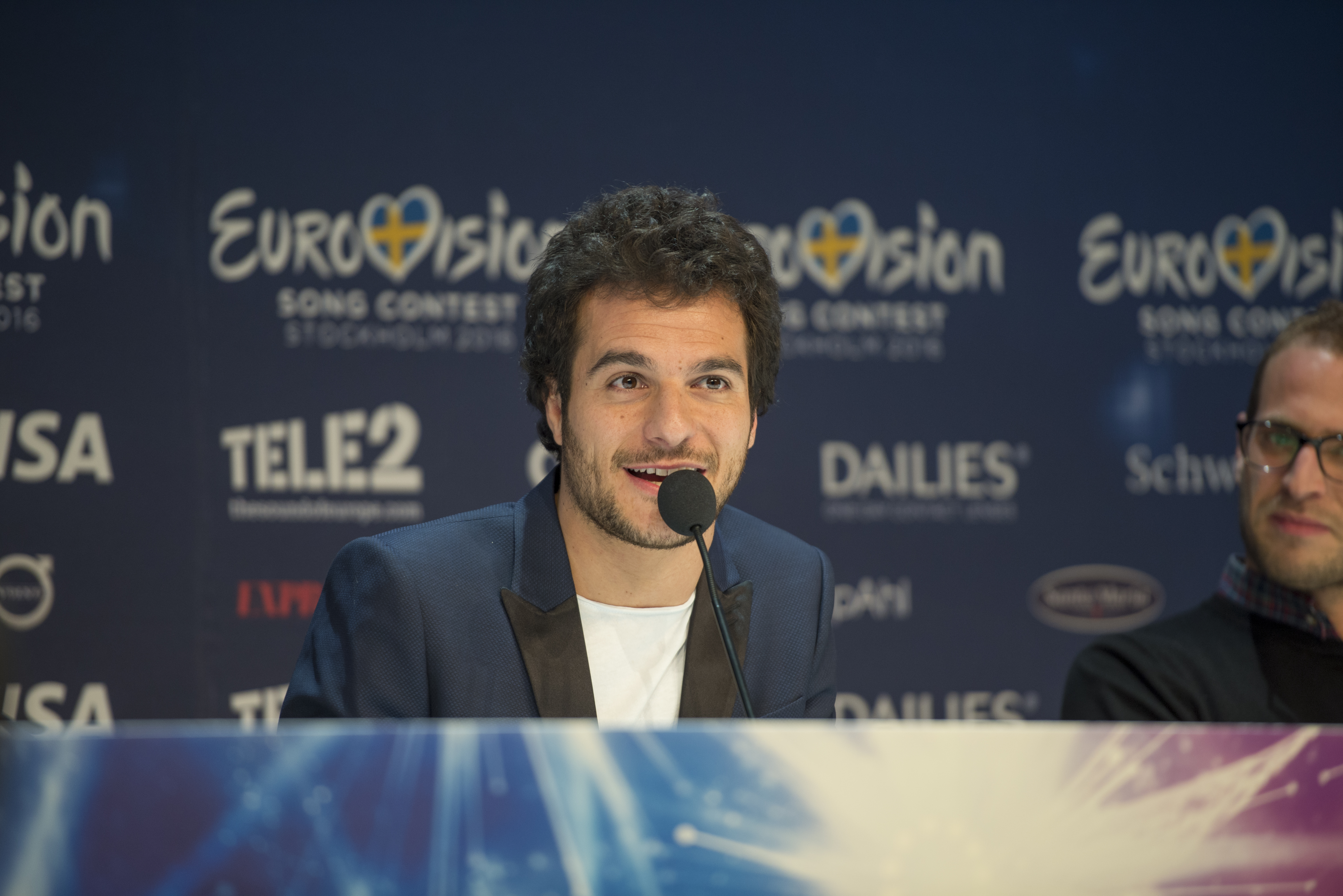 Amir at a Meet & Greet during the Eurovision Song Contest 2016 in Stockholm. (Help translate this text)